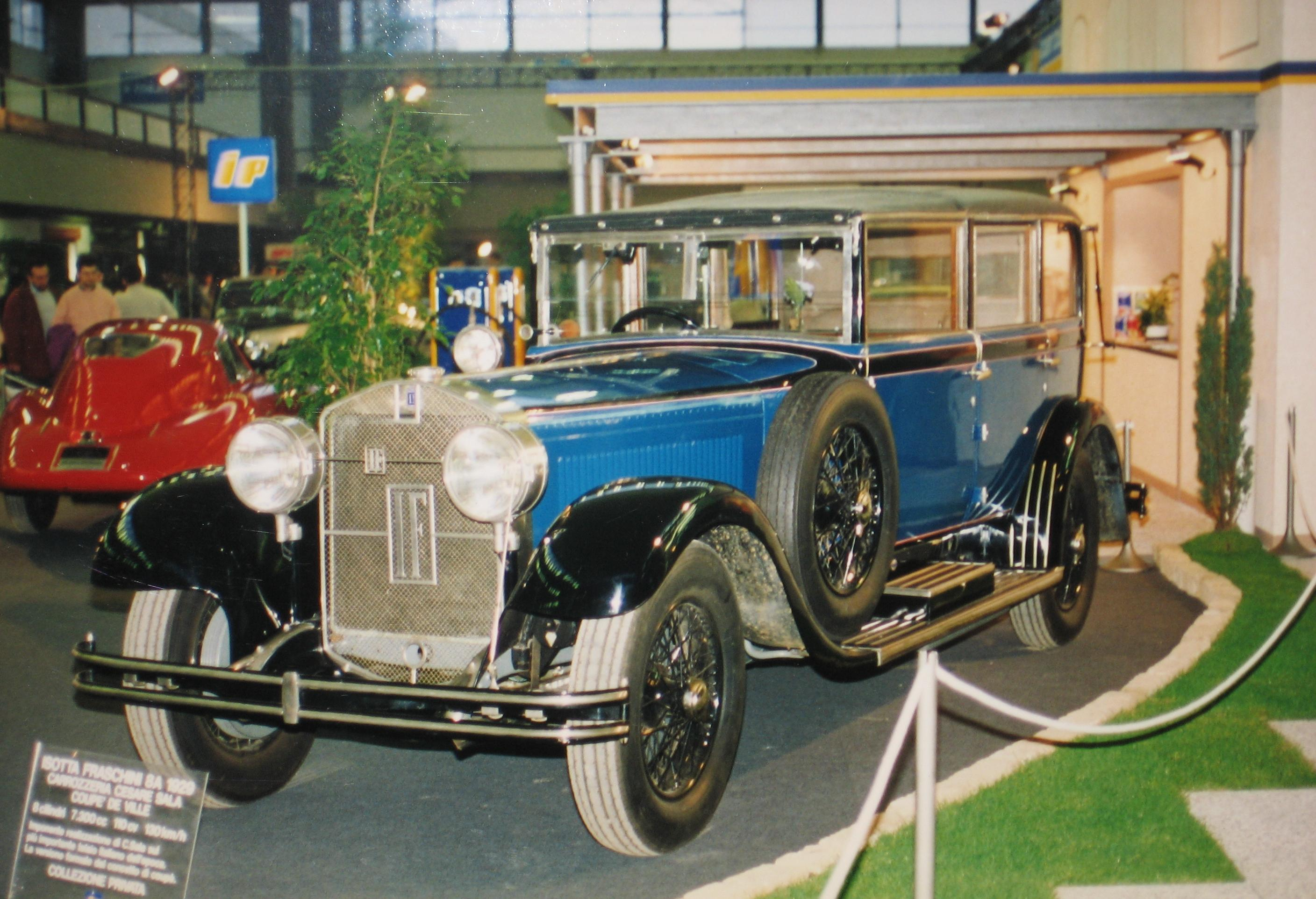 This photo has been taken recently by me from another picture by a digital camera. The features of the original pictures are shown here: Subject: Isotta Fraschini Tipo 8A SS